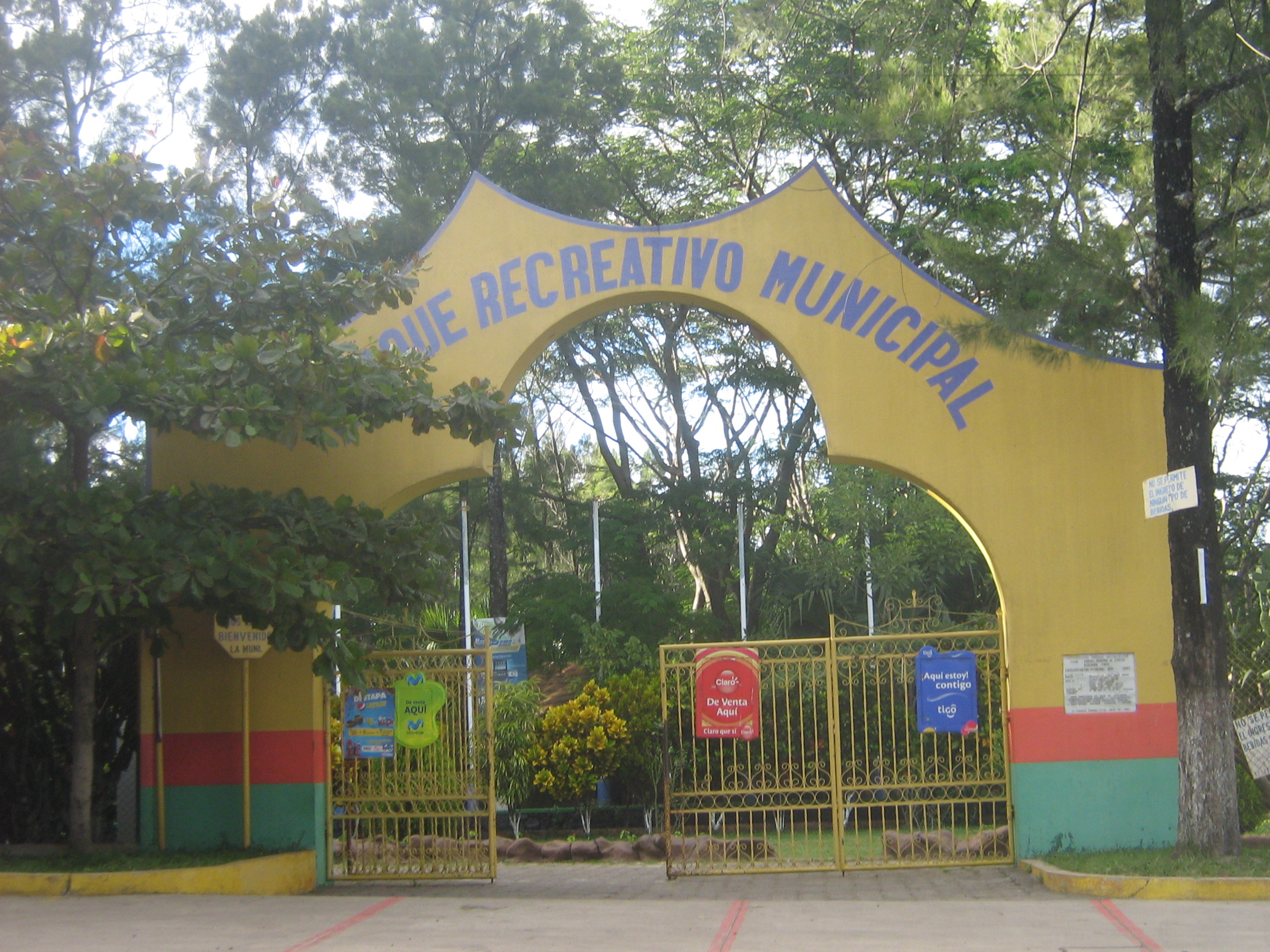 Recreation Center Entrance "Raquel Blandon de Cerezo". It recretivo Park Township where El Progreso has playgrounds and swimming pools.